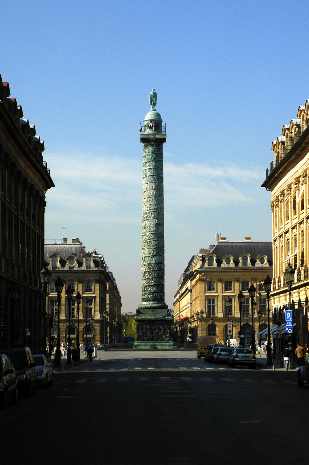 Colonne Vendôme. From the Rue de la Paix, at 10:20 on the 10th of August 2005.